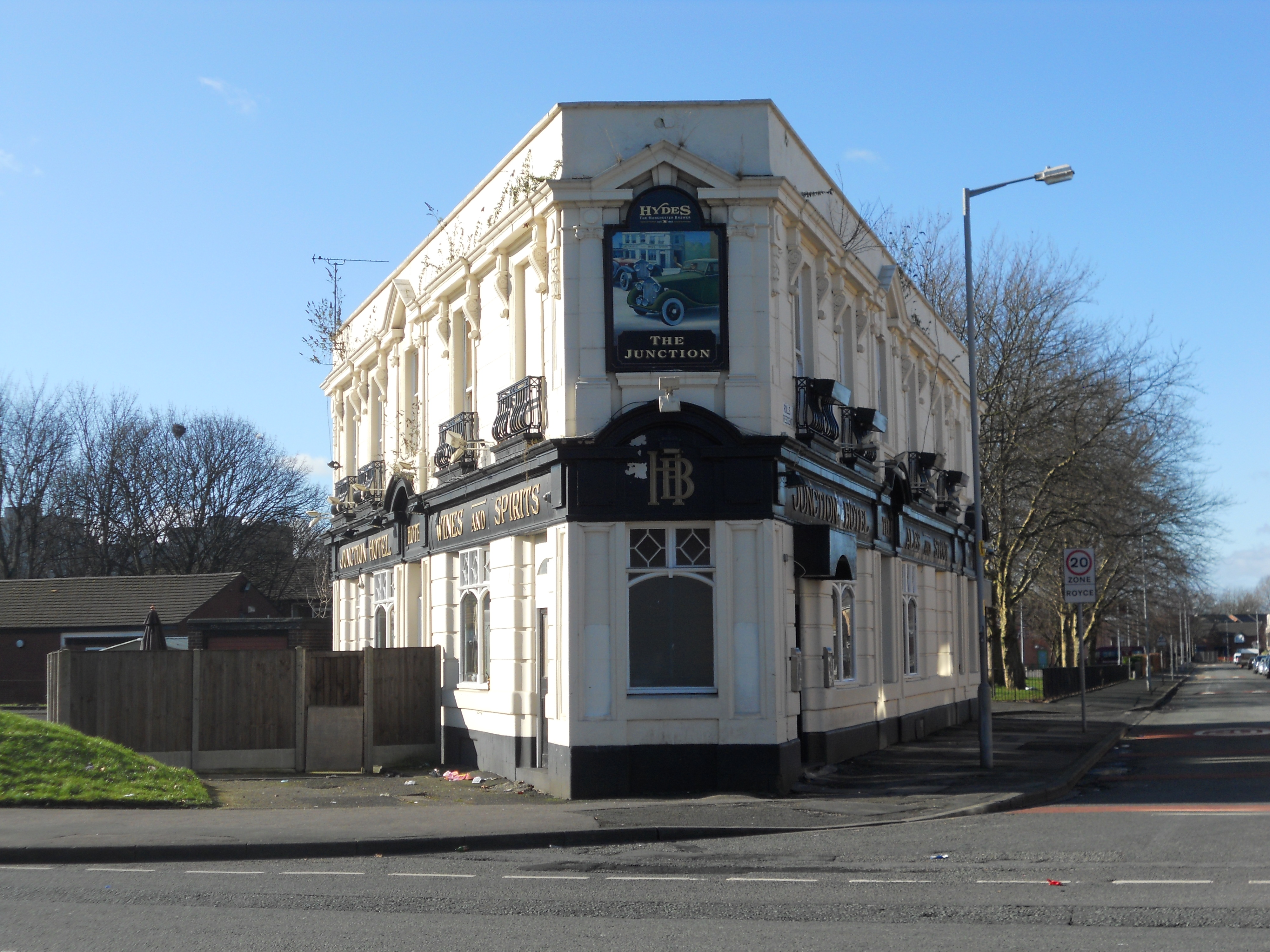 (Grand) Junction Hotel, Rolls Crescent, Hulme, Manchester. Wedge-shaped pub, a relic of old Hulme. Its name reflects its position where the tramway through Hulme divided into two tracks.